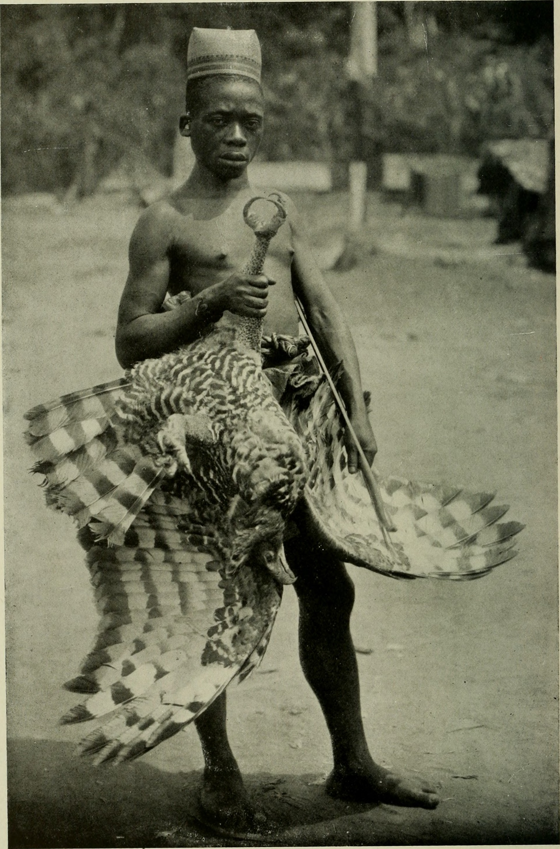 A Makere native with a great-crowned eagle. Title: The American Museum journal Year: c1900-(1918) (c190s) Authors: American Museum of Natural History Subjects: Natural history Publisher: New York : American Museum of Natural History